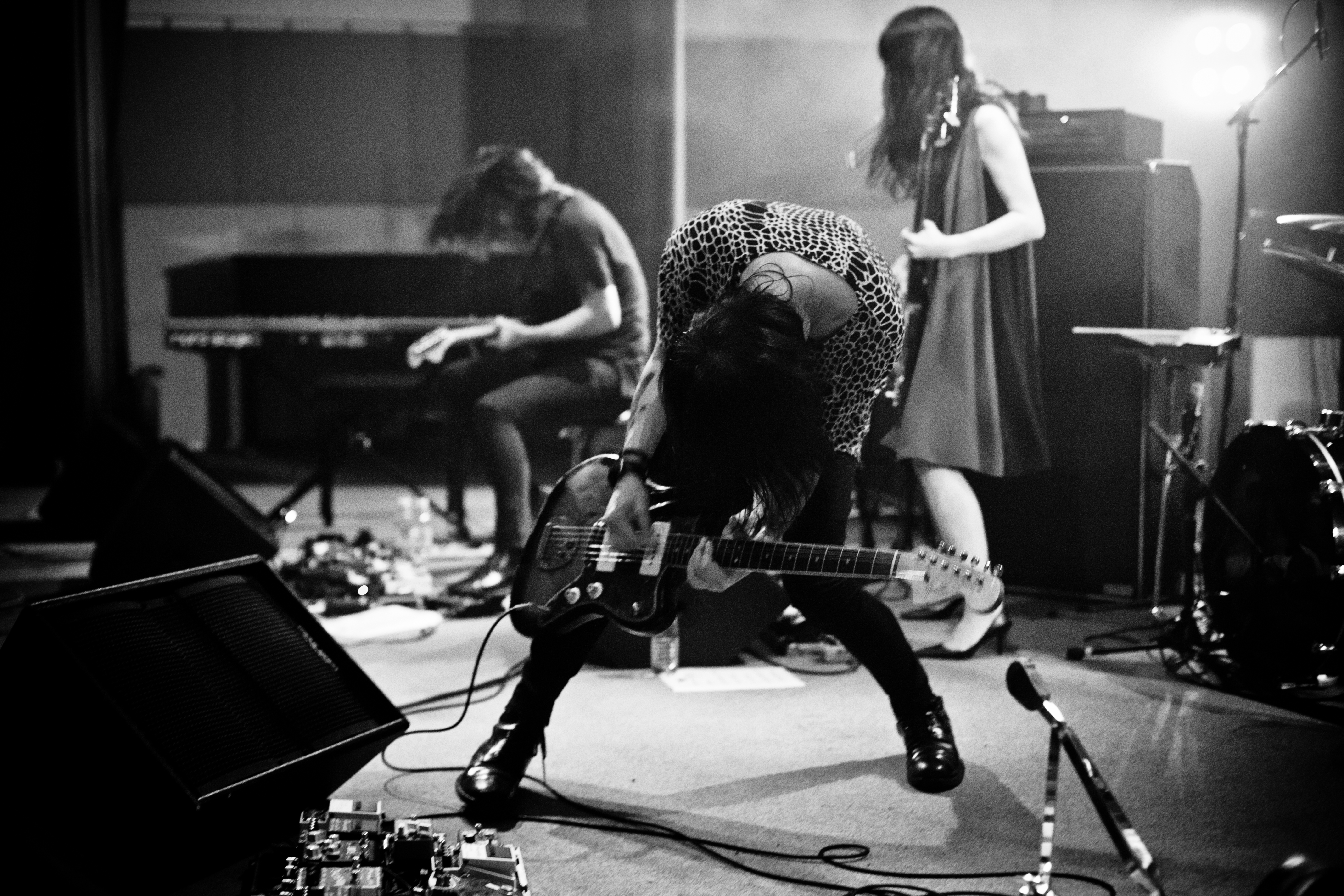 Photo by Muto